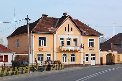 City Hall of Şeica Mare